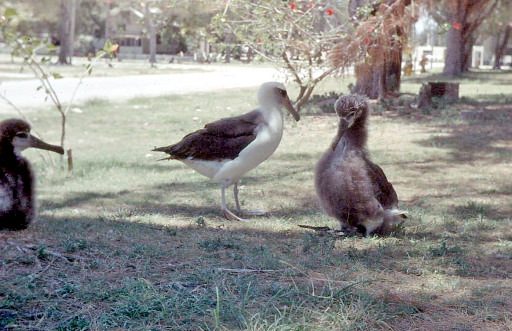 Laysan Albatrosses, aka "Gooney birds", and chicks on Midway Island, 1958